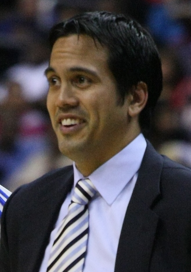 Miami Heat Erik Spoelstra standing next to referee Joe DeRosa during the Miami Heat/Washington Wizards game at Verizon Center, April 4, 2009.